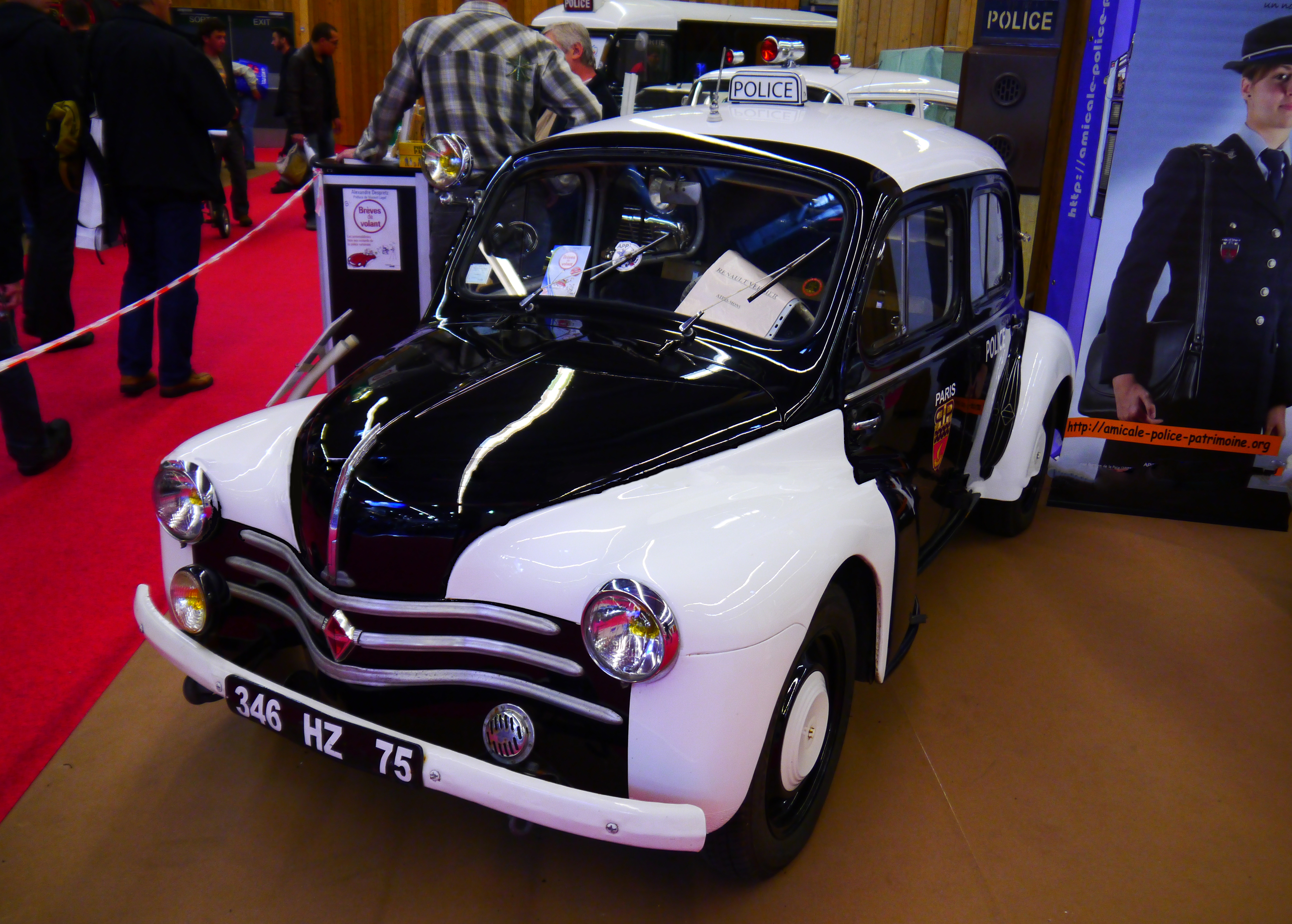 Police Nationale 1959 Renault 4CV "Pie" (magpie livery).